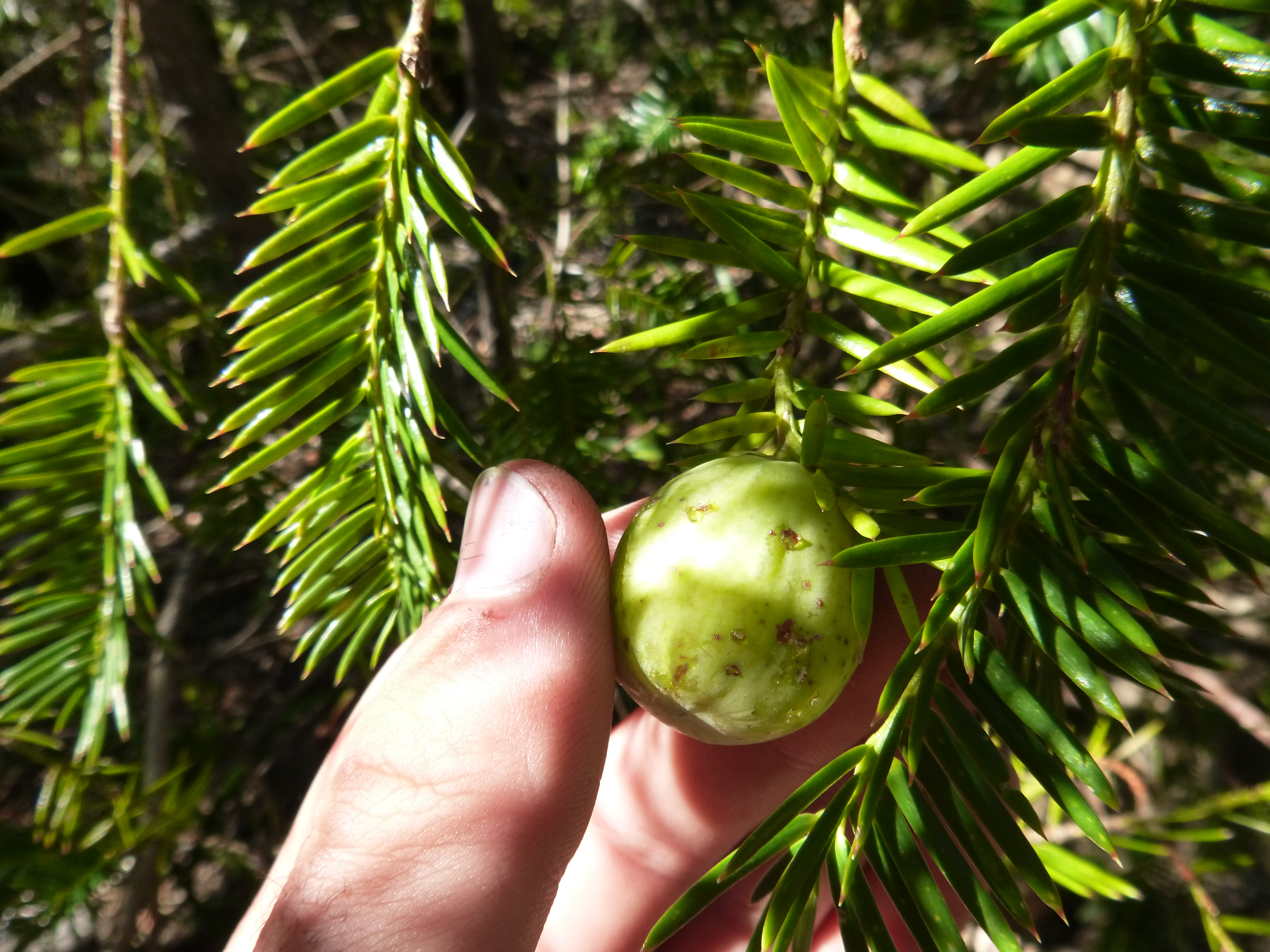 Seed contained in aril of Torreya californica (Taxaceae) from Mt. Tamalpais, California, USA.